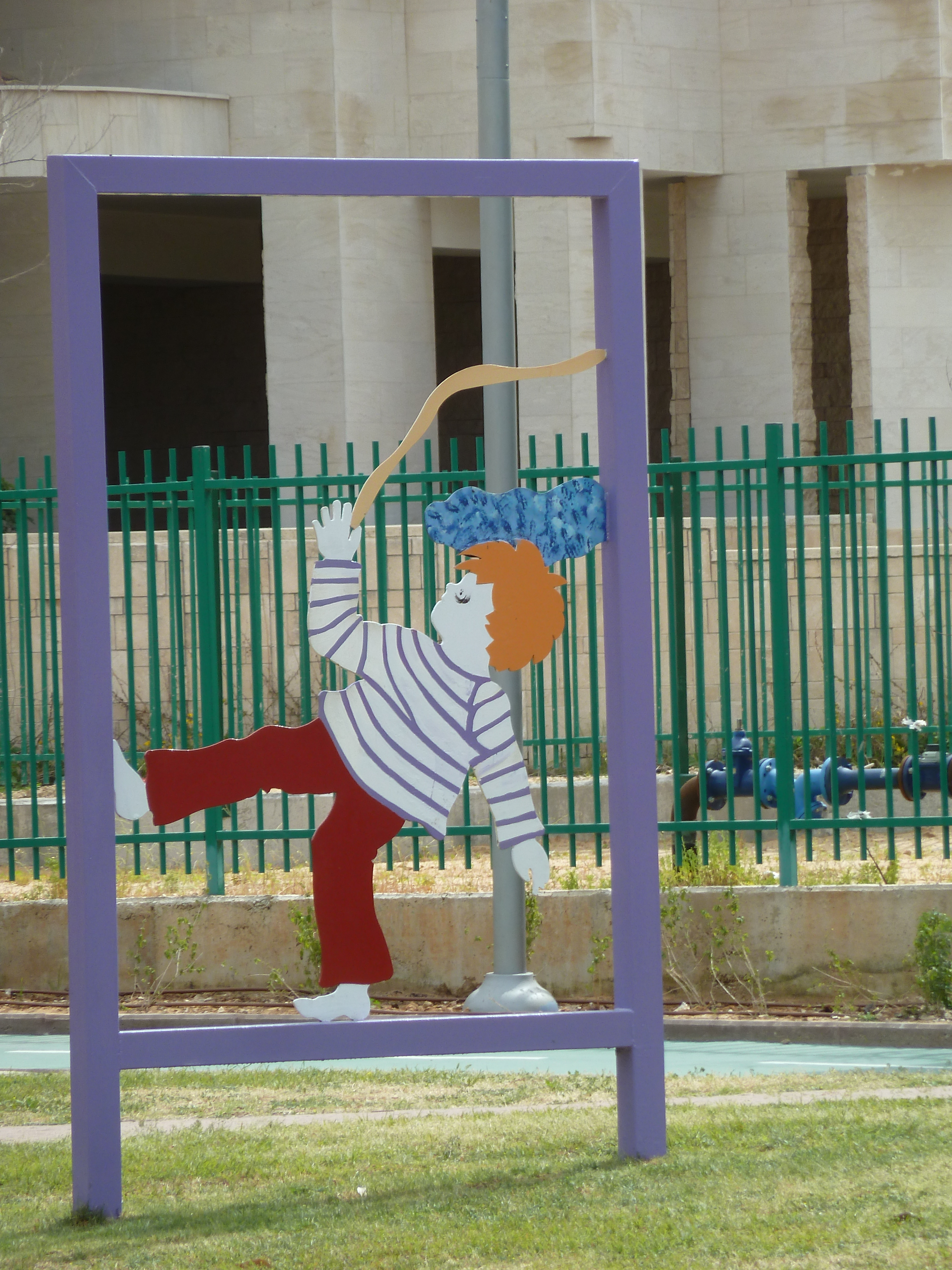 IItamar Walks on Walls - Statues by Eli Shuki and Limor Olokia, based on the book by David Grossman, Holon, Israel This image was taken as part of the Elef Millim project trip to Hussamssa in Holon in the Centre of Israel, which was held on Friday, 8th March 2013. To view all images uploaded as part of the Elef Millim Project